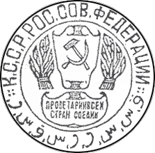 Coat of arms of the Kirghiz ASSR from 1921 until 1925.